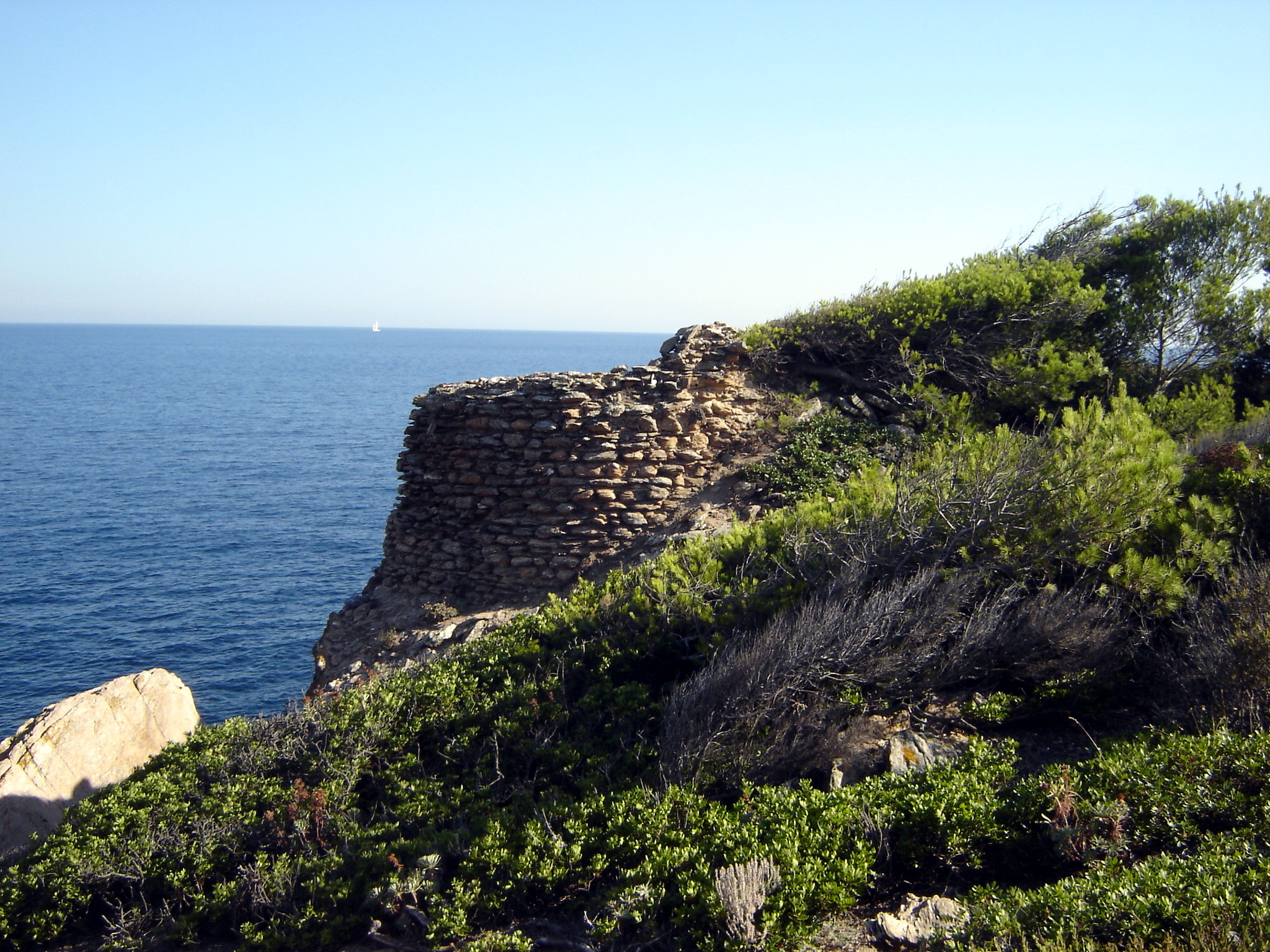 Ruin of the Titan Tower heading east.